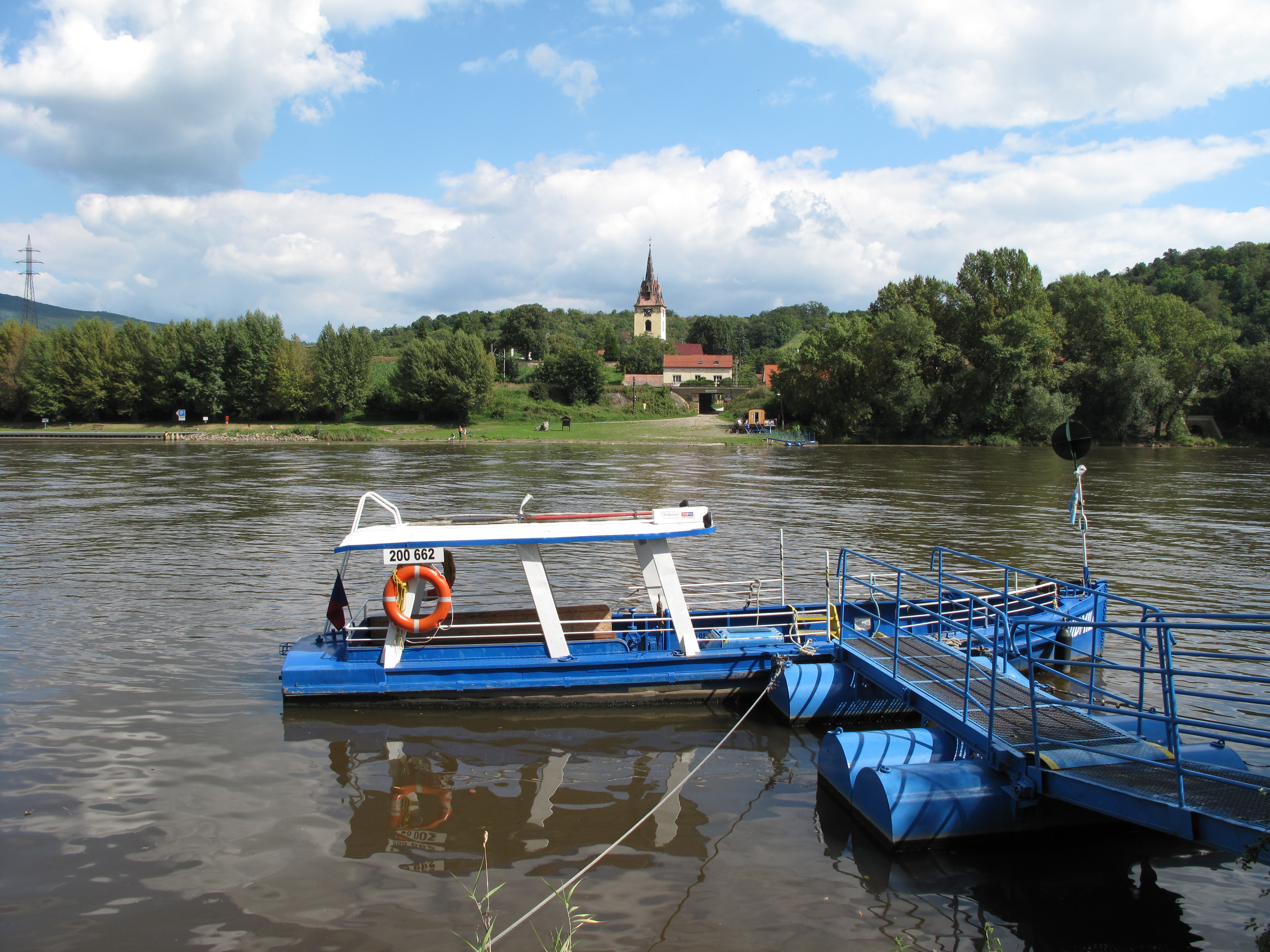 Malé - Velké Žernoseky ferry from the left river bank of Elbe, Litoměřice District, Czech Republic.